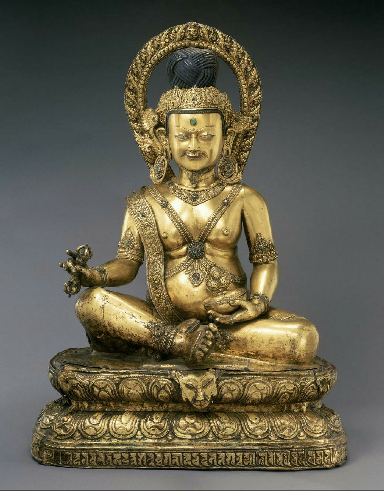 Tsangnyon Heruka, b.1452 - d.1507, Kagyu lama